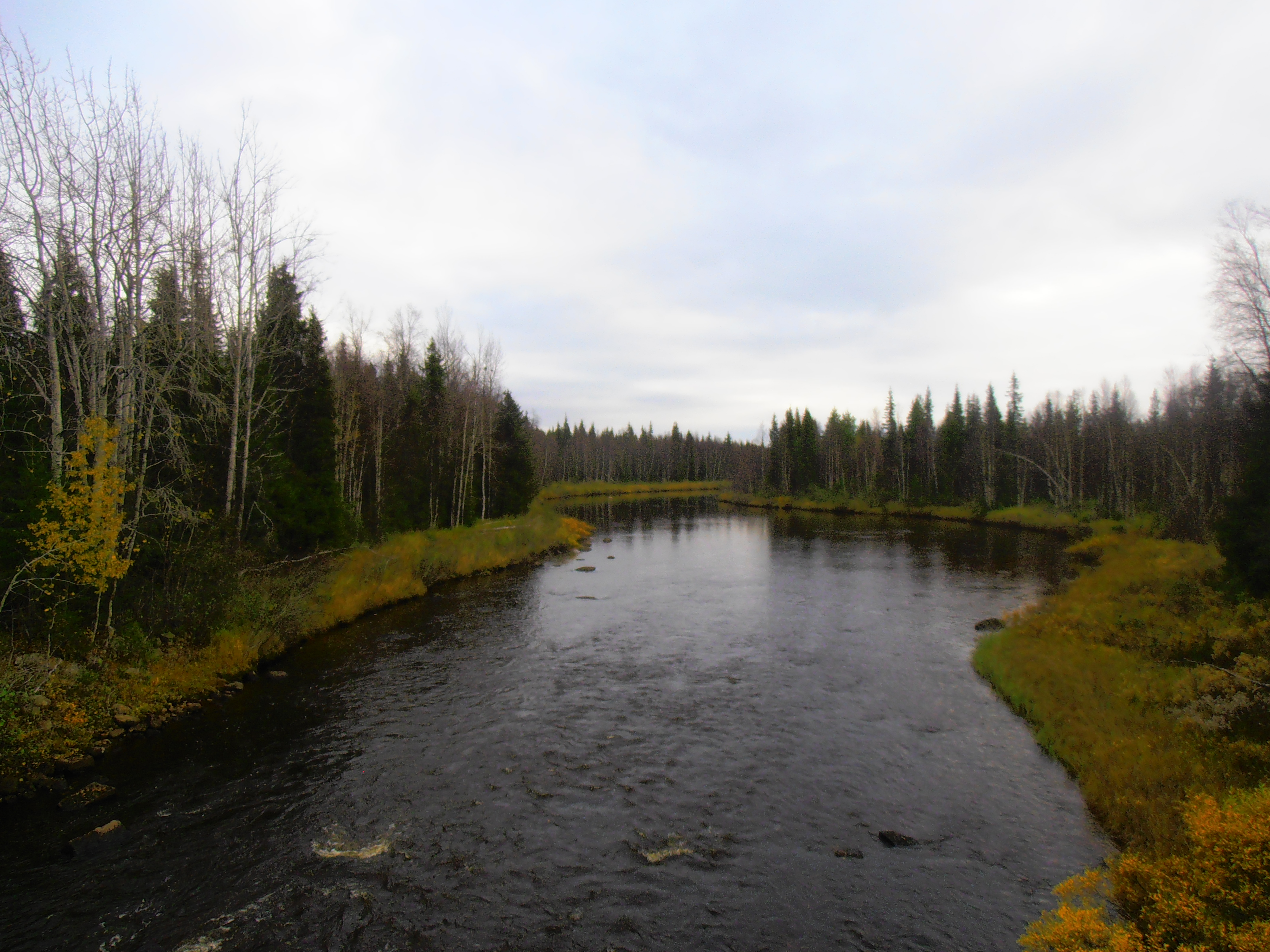 Narkån, Gällivare